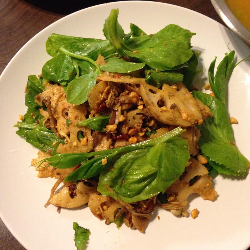 another type of singju made by the lotus roots